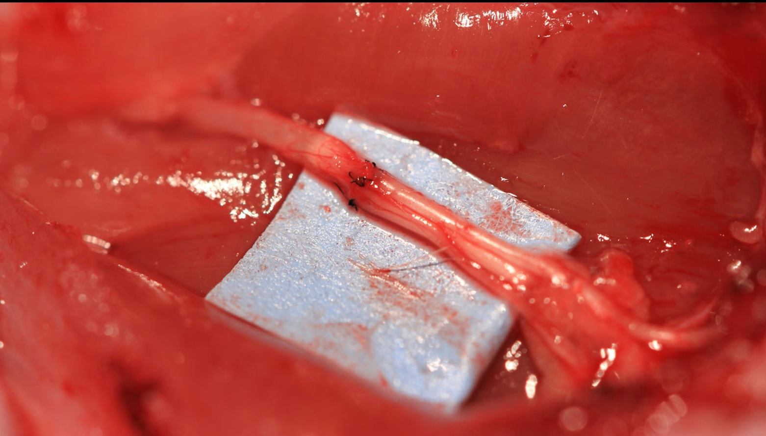 Finished epineurial repair